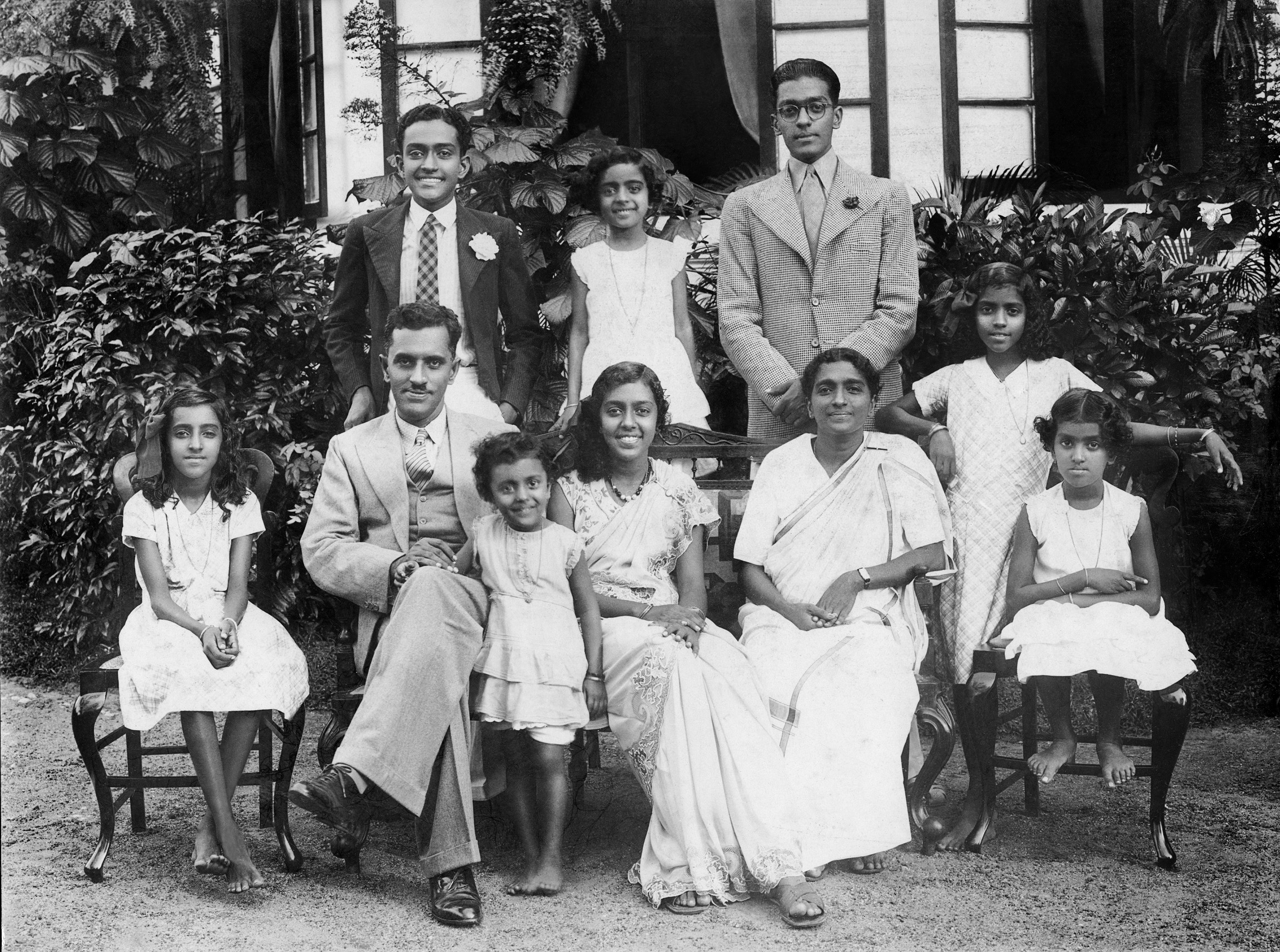 A family portrait